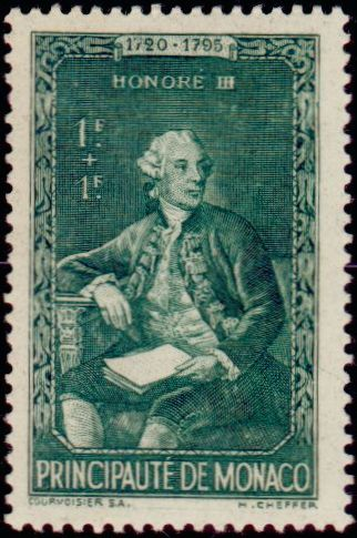 Stamp of Honore III of Monaco